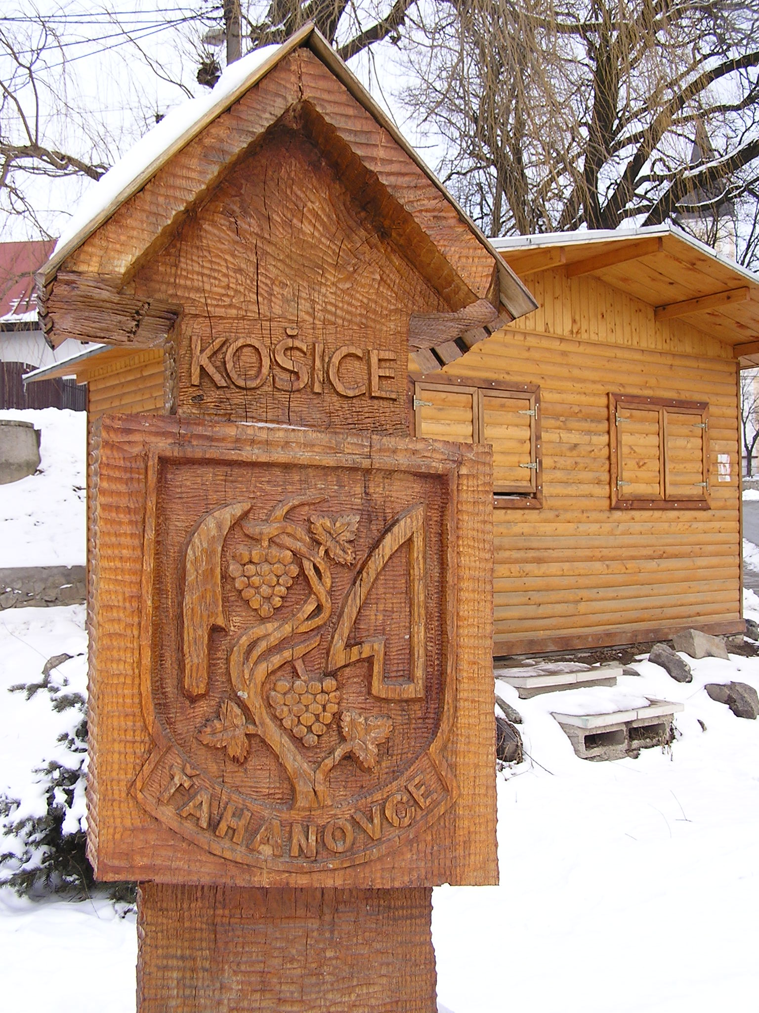 Ťahanovce´s coat-of-arms.